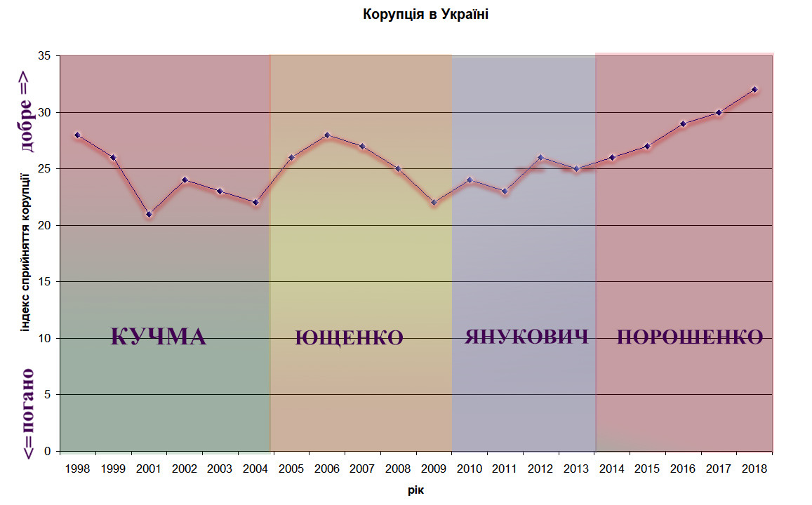 Corruption Perceptions Index ratings in Ukraine 1998-2018. Source